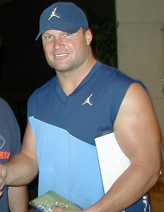 If used somewhere other than Wikipedia, Nelson, by name.